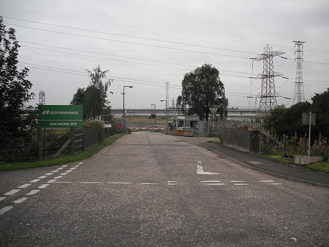 Site of Kincardine power station The main entrance to the site which has a new Scottish Power sign, showing that they still own it. The power station closed during the 1990s.